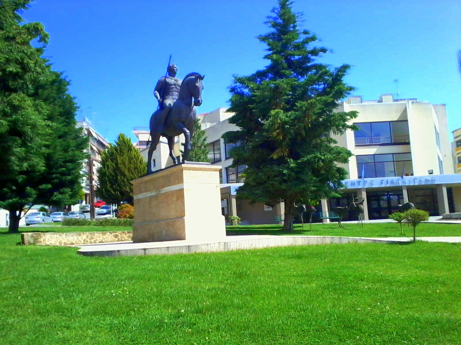 Alexander the Great Statue Giannitsa